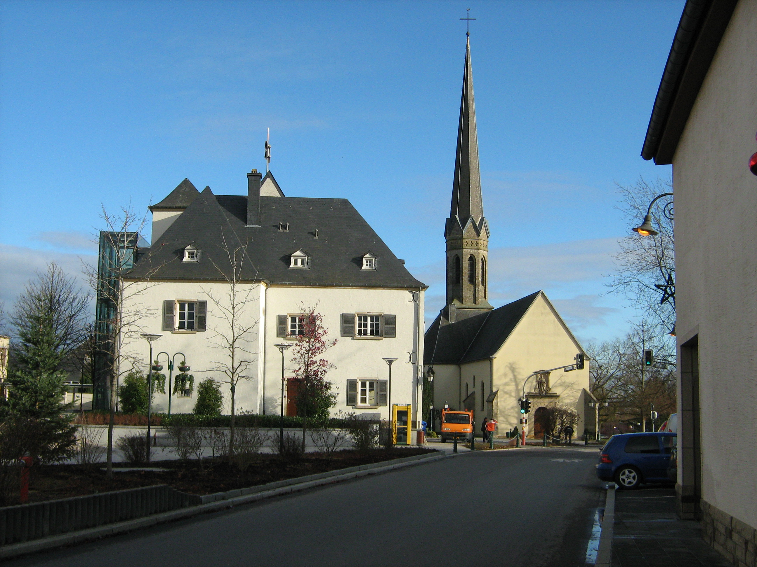 Bertrange centre, Luxembourg